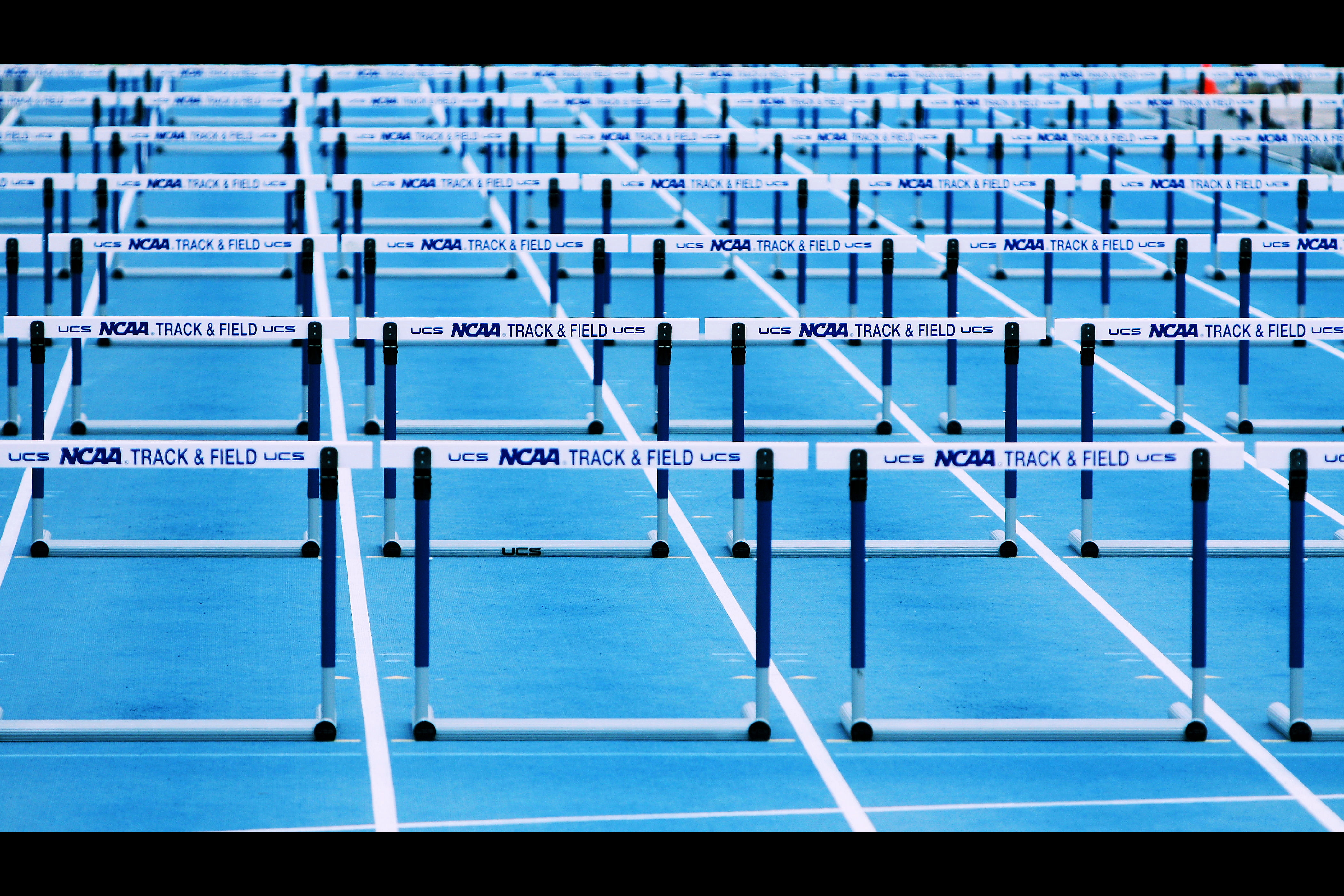 Waiting the start of the women's 100m hurdles.